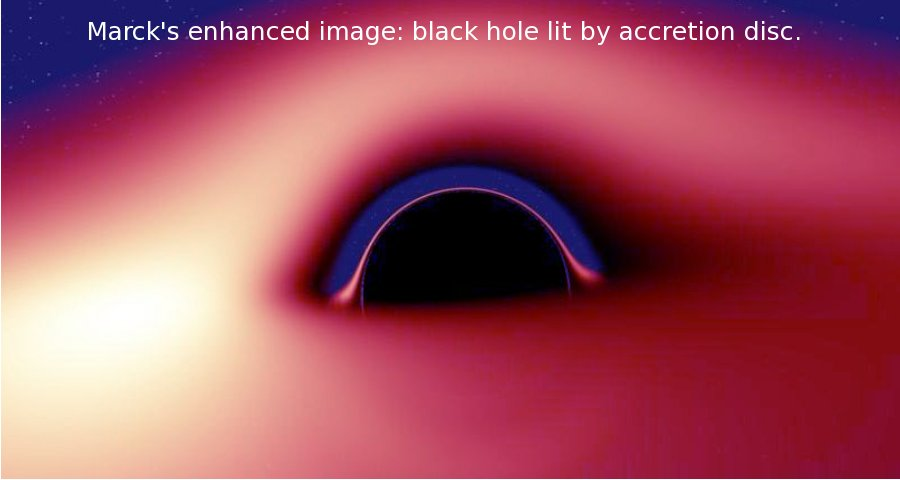 This image was produced at the Observatoire de Paris-Meudon in a CNRS research team of which I was the leader, more than 20 years ago. It is the policy of the CNRS that its productions should be freely available for public use.